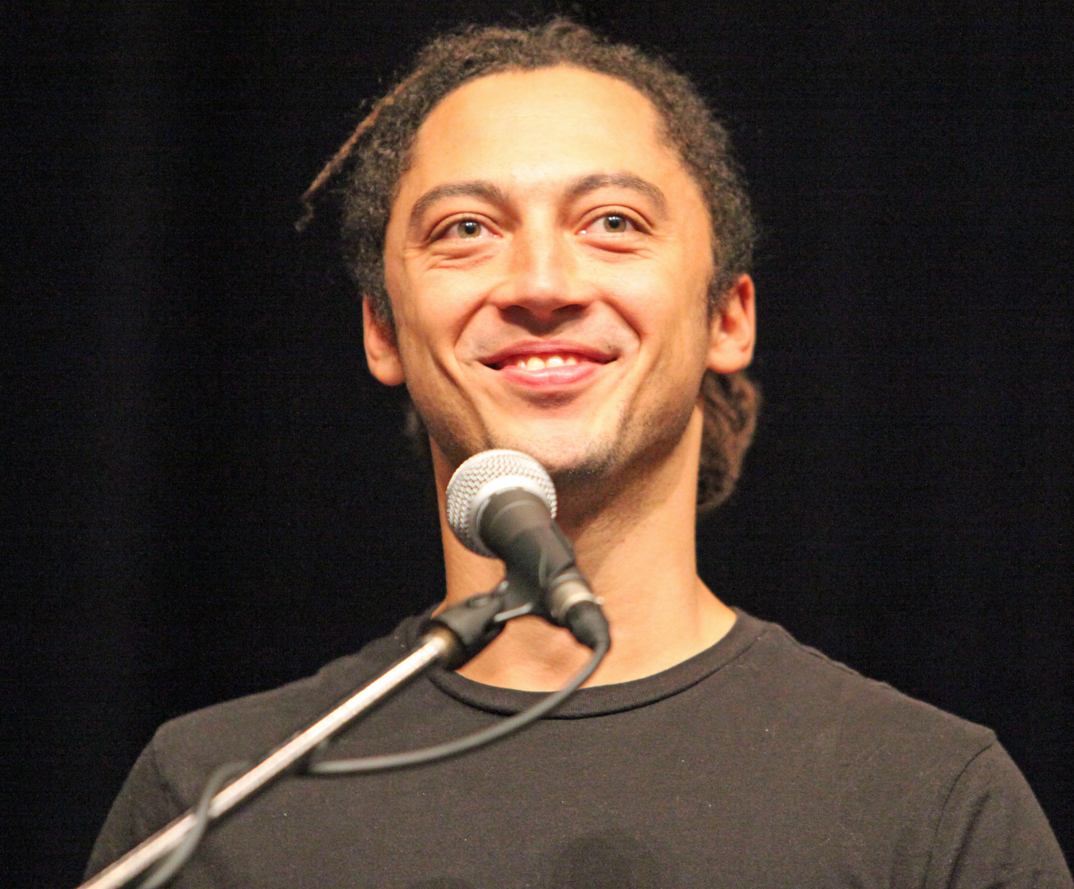 Italian-American film director Jonas Carpignano at the Karlovy Vary International Film Festival in July 2017. There he presented his photoplay "A Ciambra".